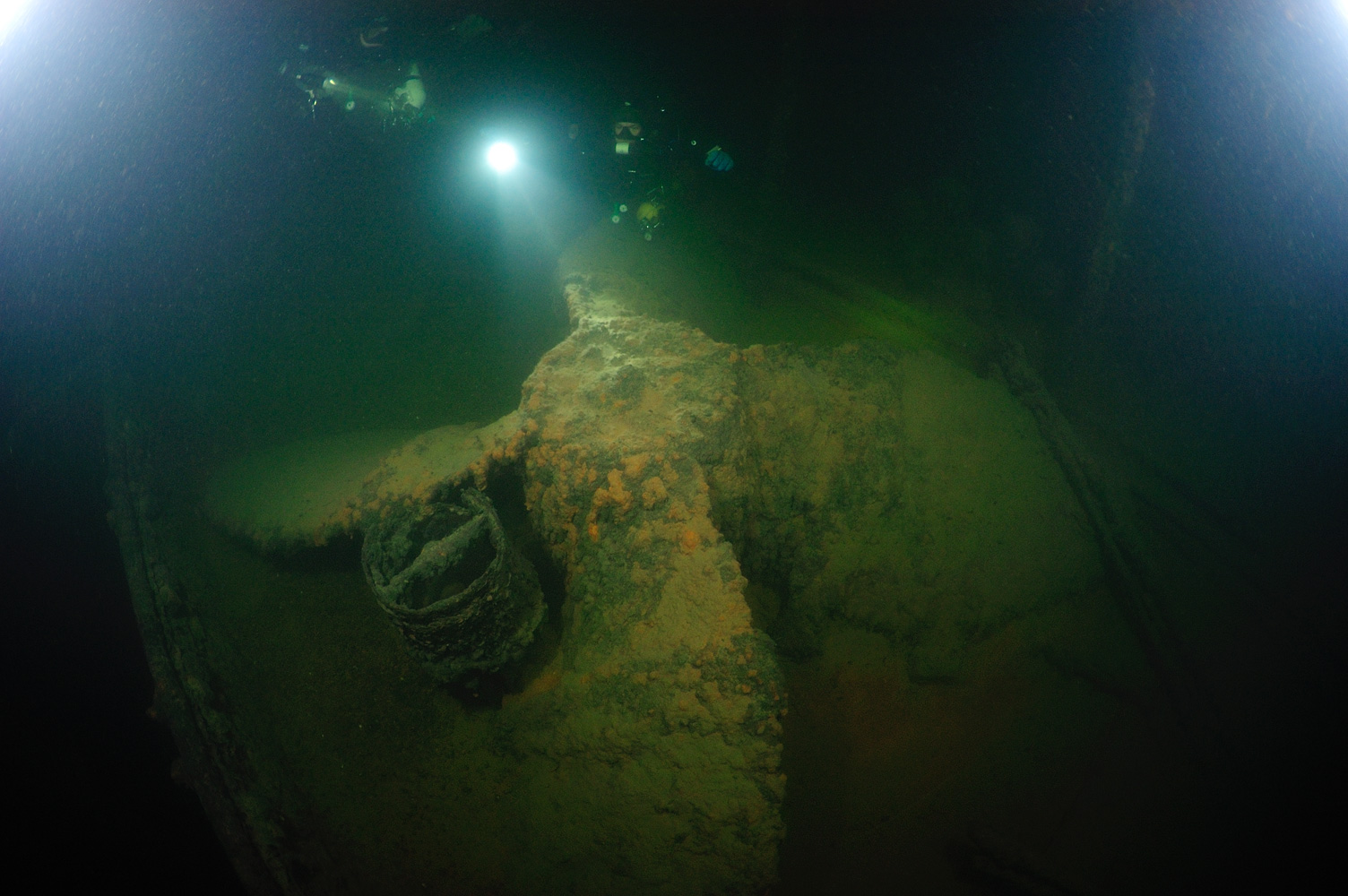 Divers inspecting the spare propeller on the wreck of the German steamship Ingrid Horn off Dalarö, Sweden